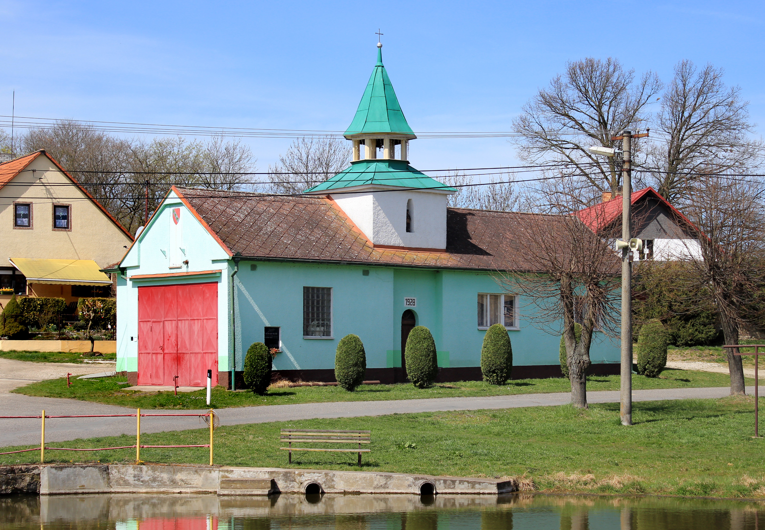 Fire house in Mostiště, part of Hlohovice, Czech Republic.